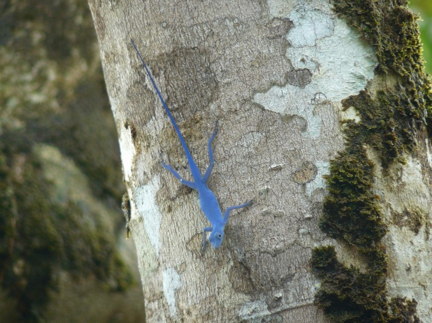 Blue Anole on Isla Gorgona, Colombia. Endemic to the island.